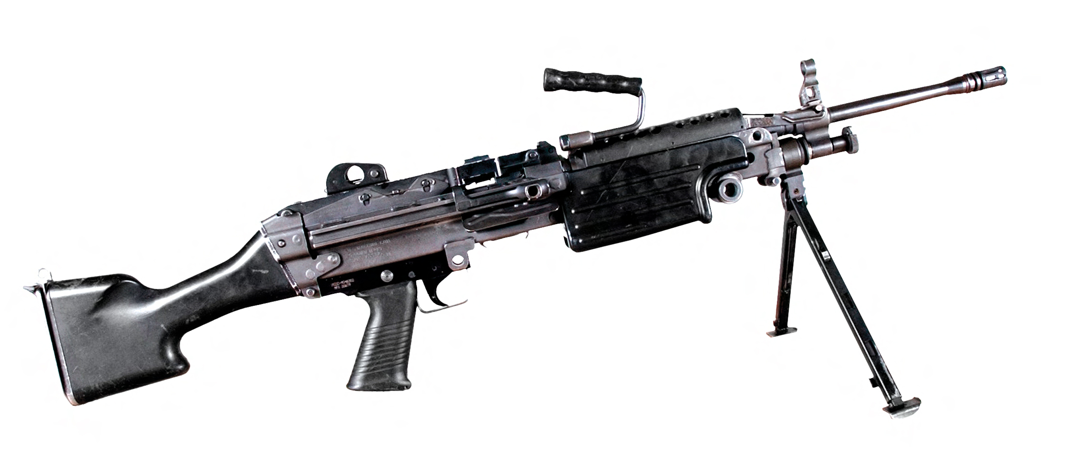 Primary function: Anti-personnel and light materiel targets. Length: 40.75 in. Weight: 17 lbs. with bipod and tools. Caliber: 5.56 mm NATO. [ Maximum effec- tive range: Area target: 600 meters; point target: 800 meters. Cyclic rate of fire: 850 rounds per minute.